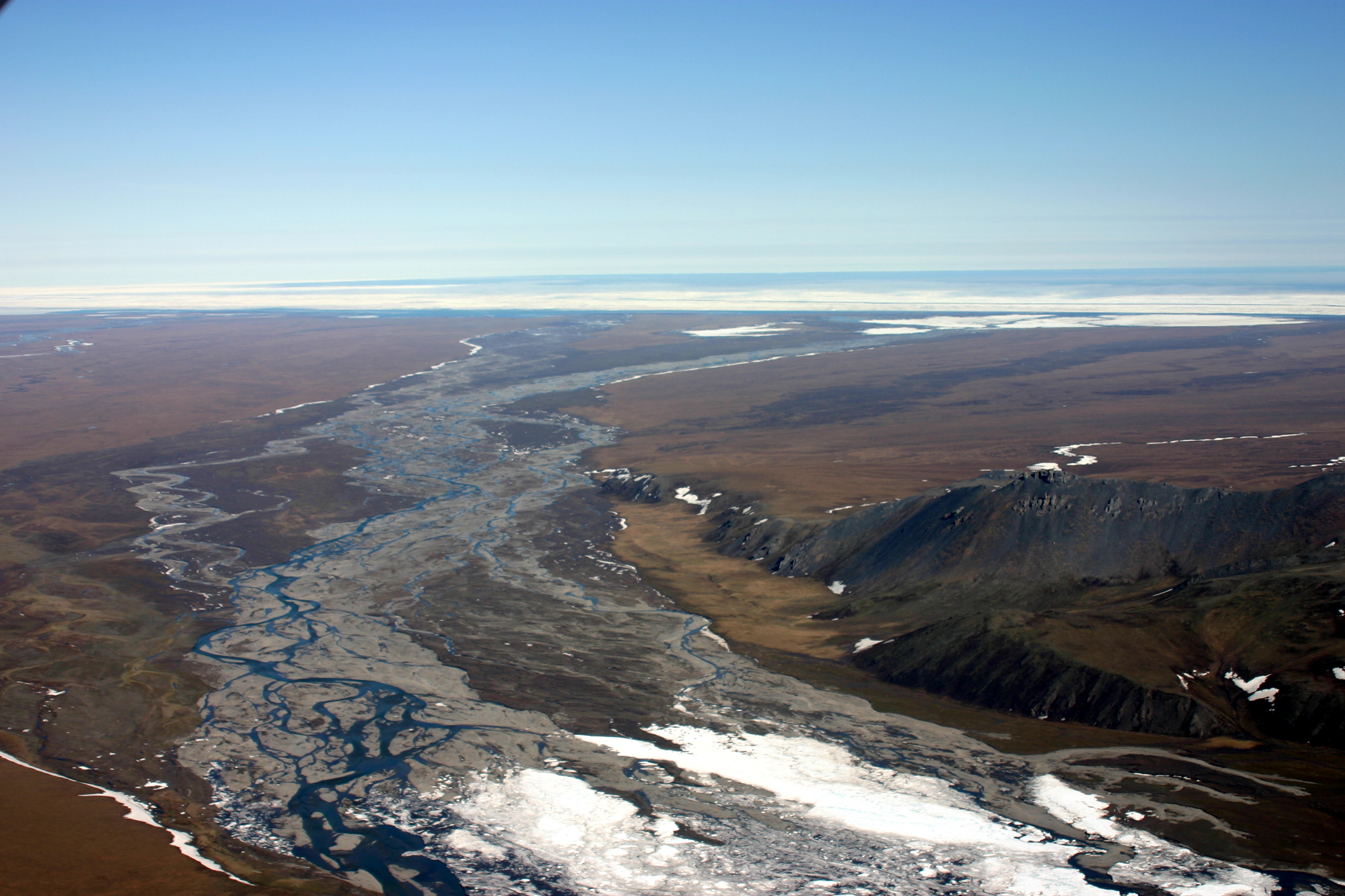 The Kongakut flows into the Beaufort Sea.